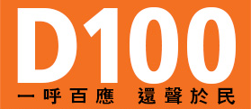 The logo of a Hong Kong Radio Station,which called D100. 粵語: D100標誌